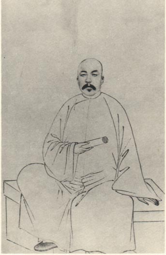 ZOU Daijun, scholar of the Qing Dynasty.